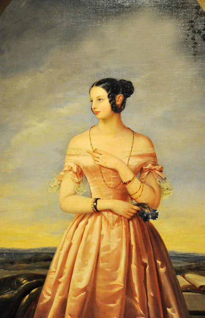 Copie